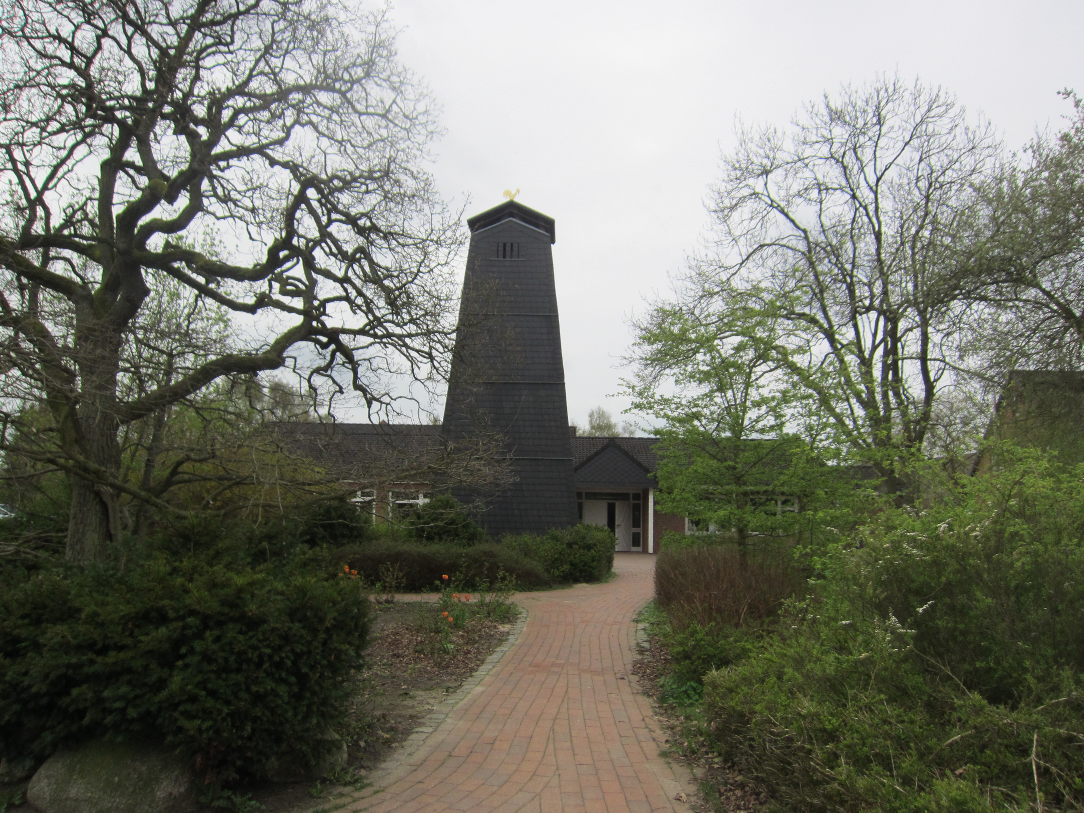 Lutheran church "Matthias-Claudius-Kirche" in Kiel-Suchsdorf